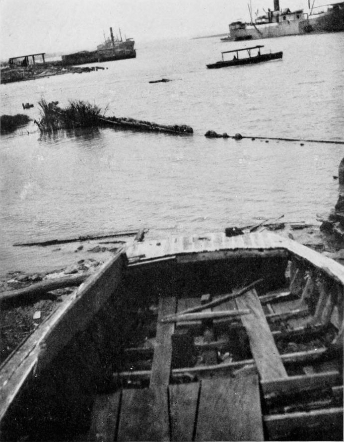 Wreckage of slave ship, Clotilda from Historic sketches of the South by Emma Langdon Roche, publisher: New York: The Knickerbocker Press, 1914.